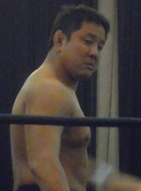 Japanese professional wrestler, Yuji Nagata. Nov 20 2011 NJPW Tatebayashi.